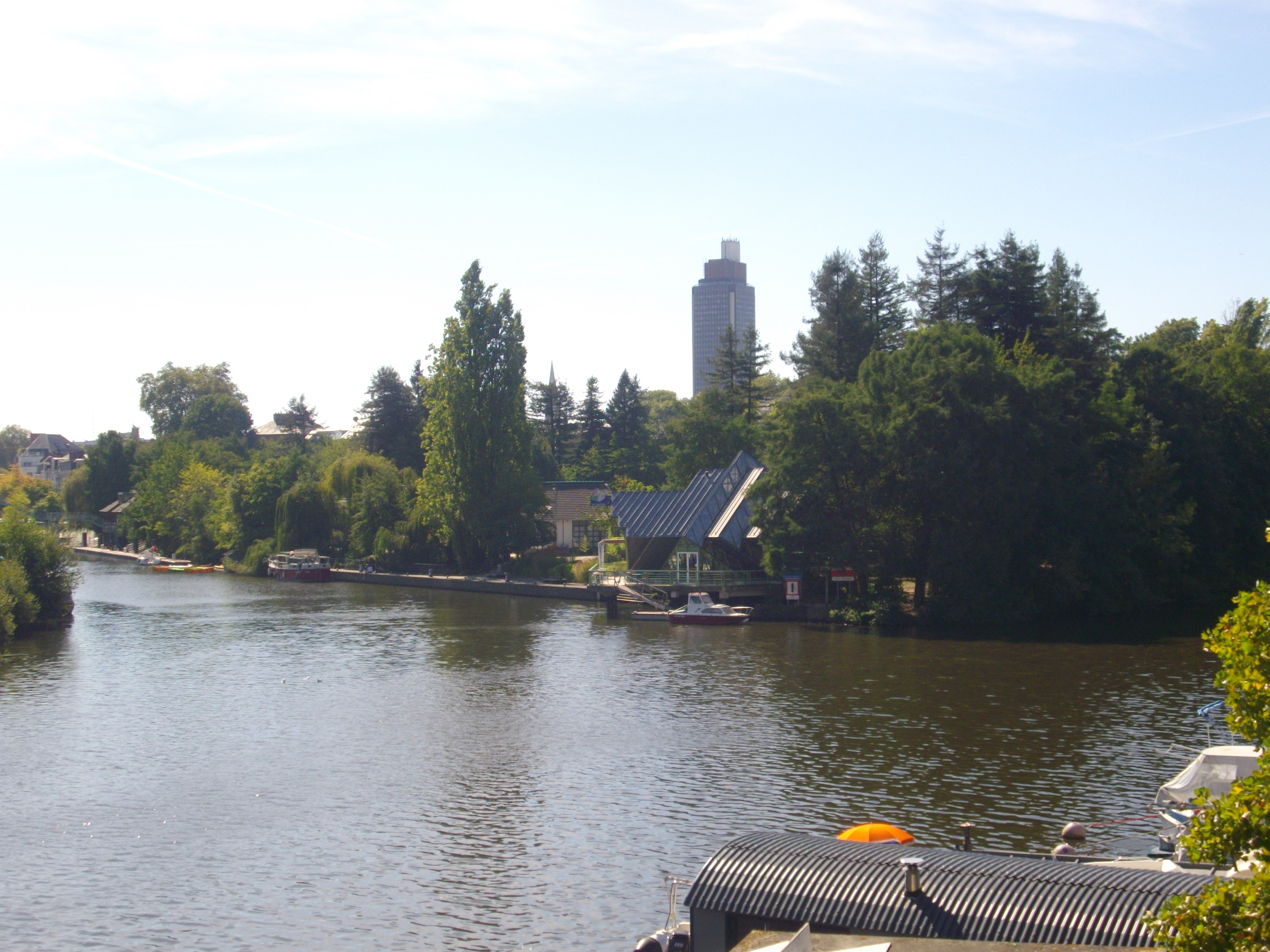 Versailles island in Nantes (Loire-Atlantique, France)